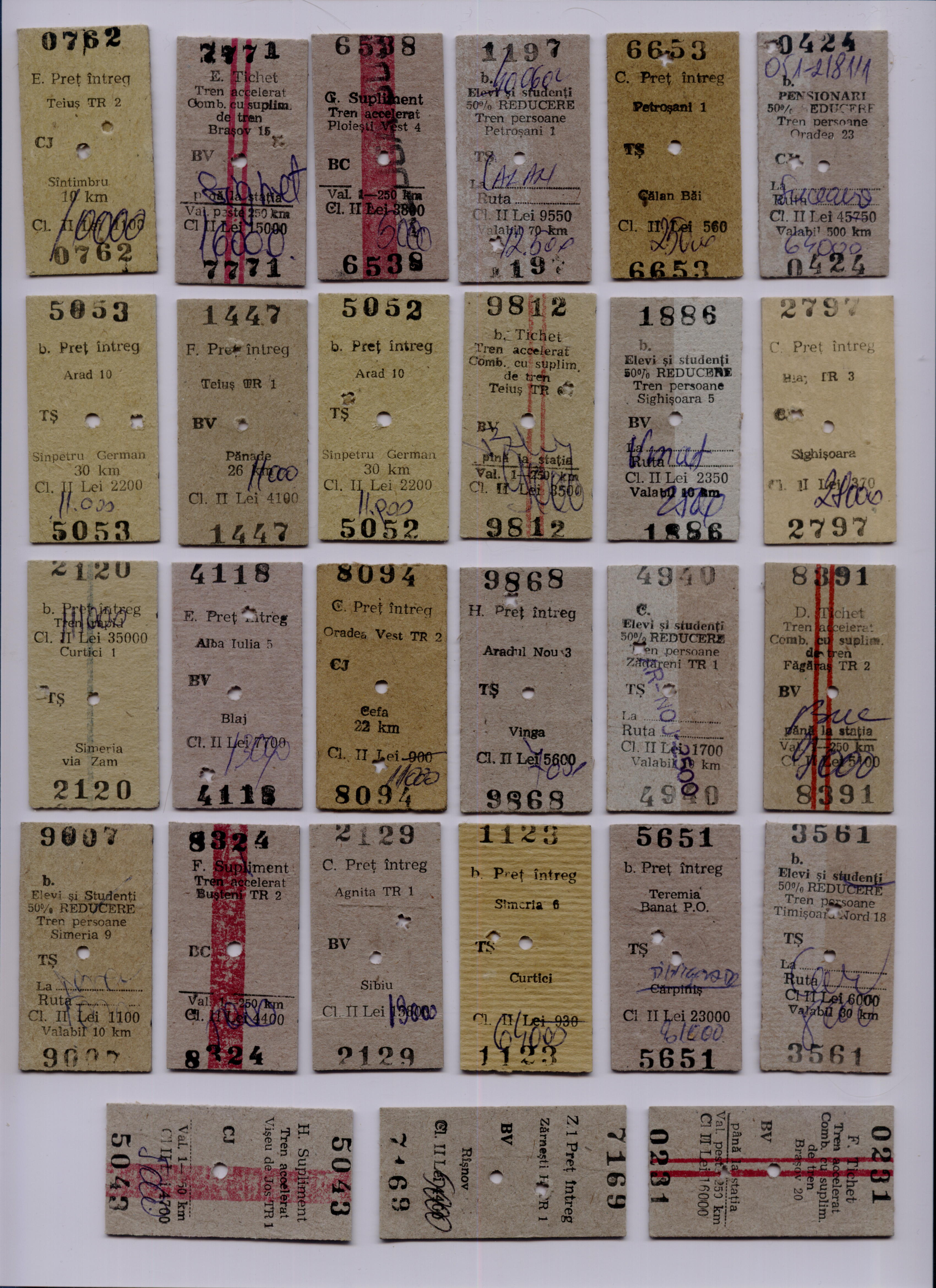 Classic (Edmonson) tickets of CFR, state railroads in Romania, valid for travel mainly in May and October 2001 (several however in 2002). At that time, this type of tickets was sold both at big and small stations. Computer-generated tickets were just starting in Bucuresti. Due to inflation, the tickets were almost never sold at pre-printed prices (see handwritten corrections).